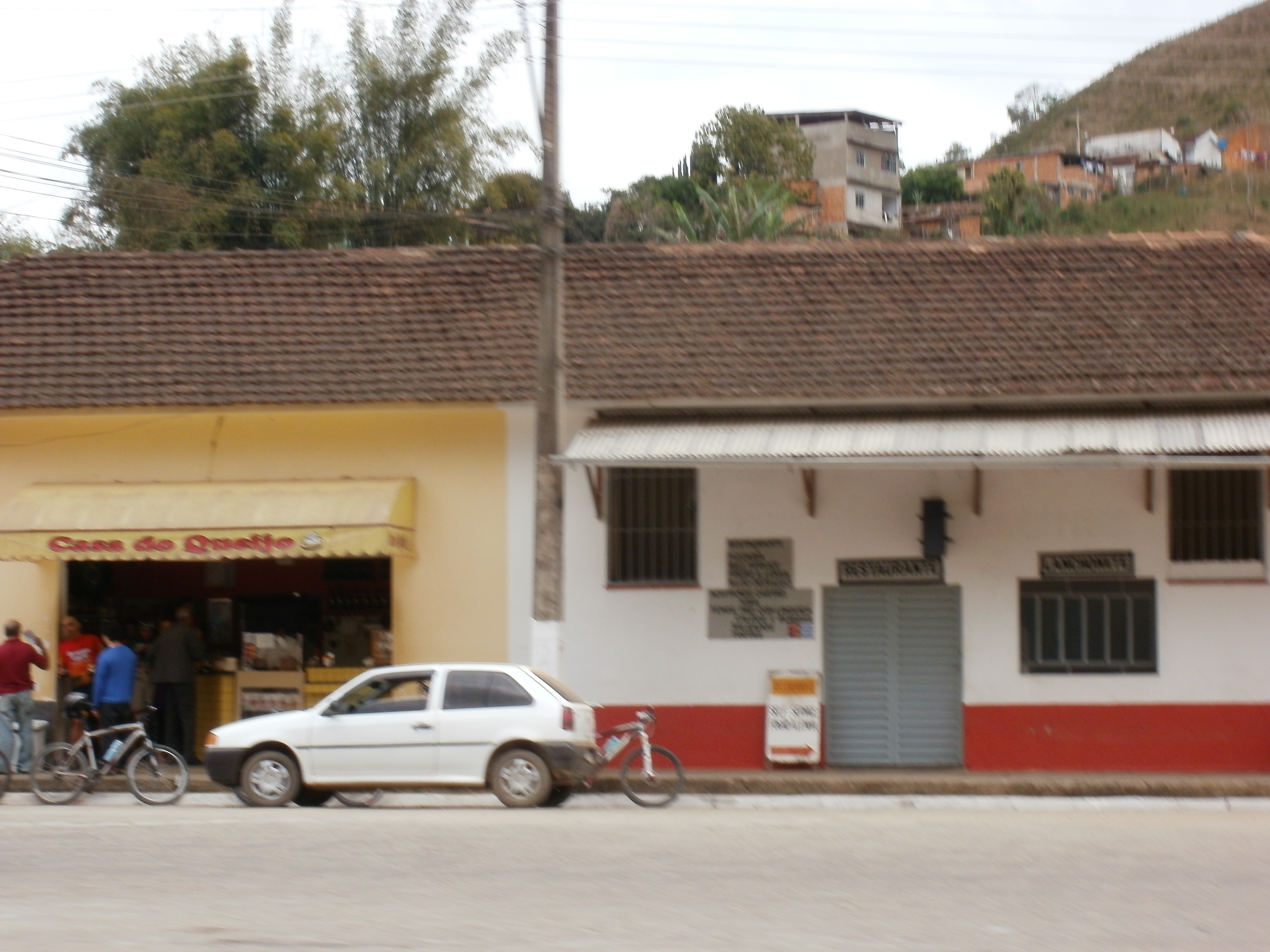 Trade in Santa Rita de Jacutinga, Minas Gerais, Brazil.